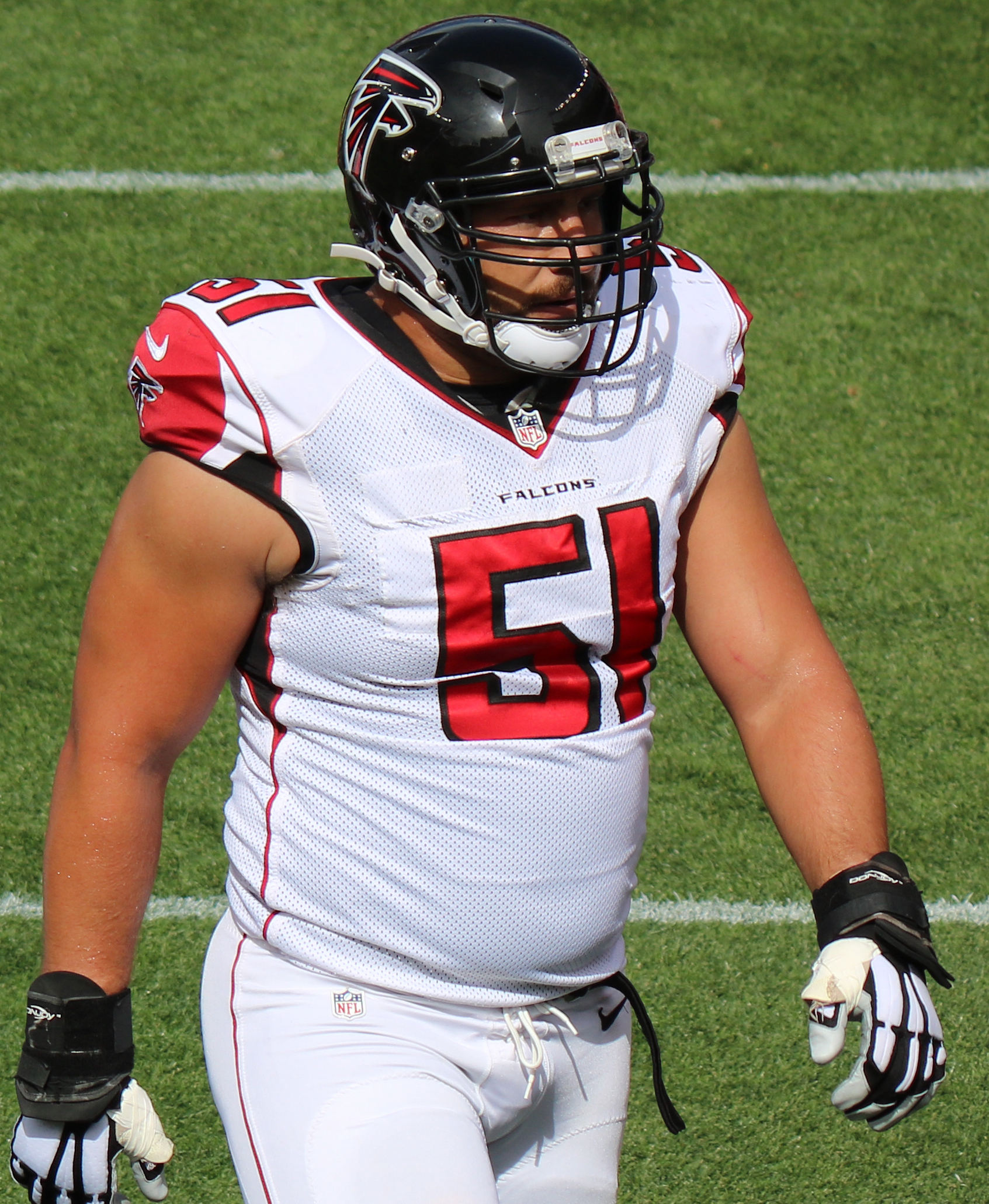 Alex Mack, a player on the National Football League.